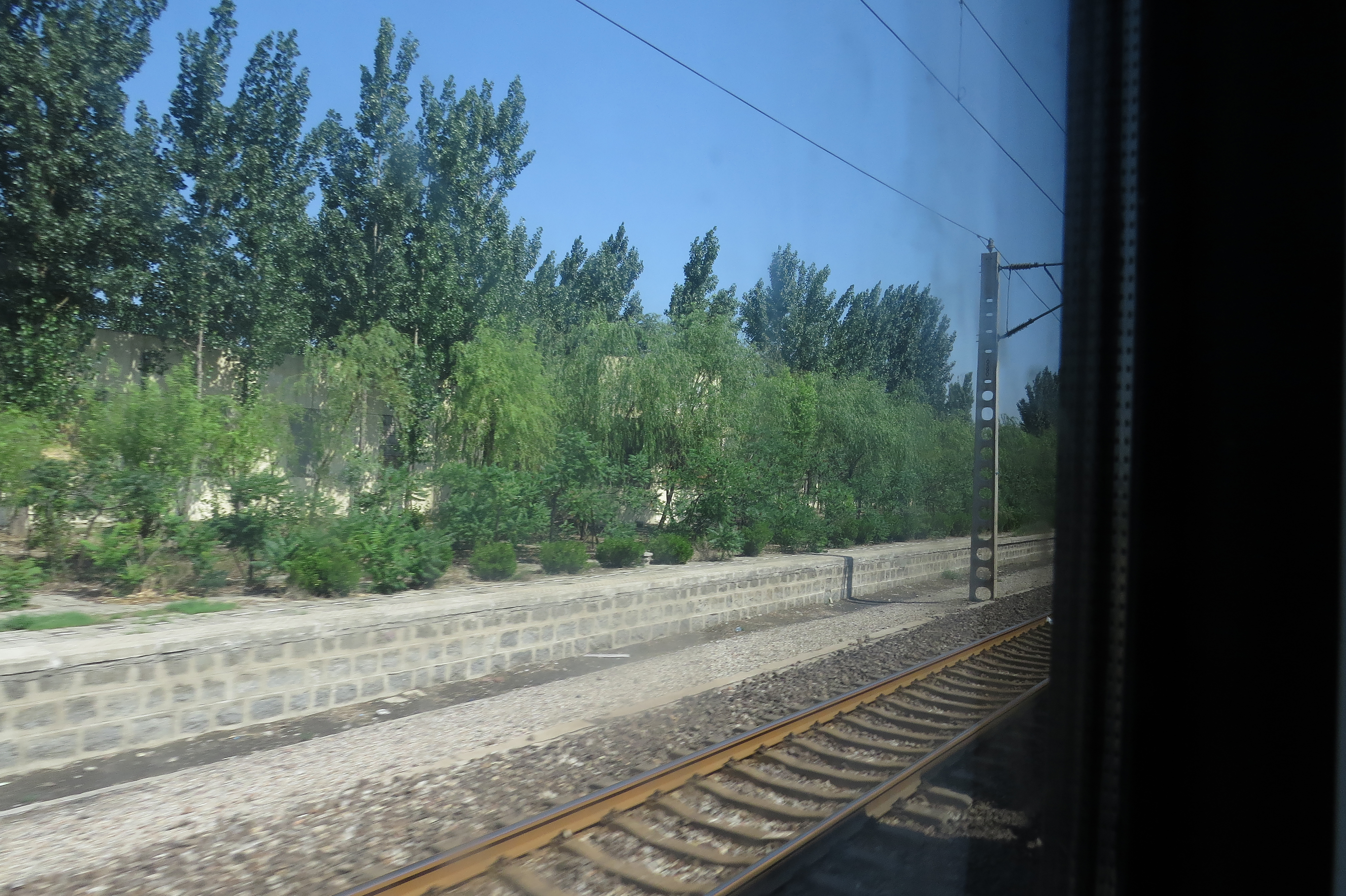 No longer exists.